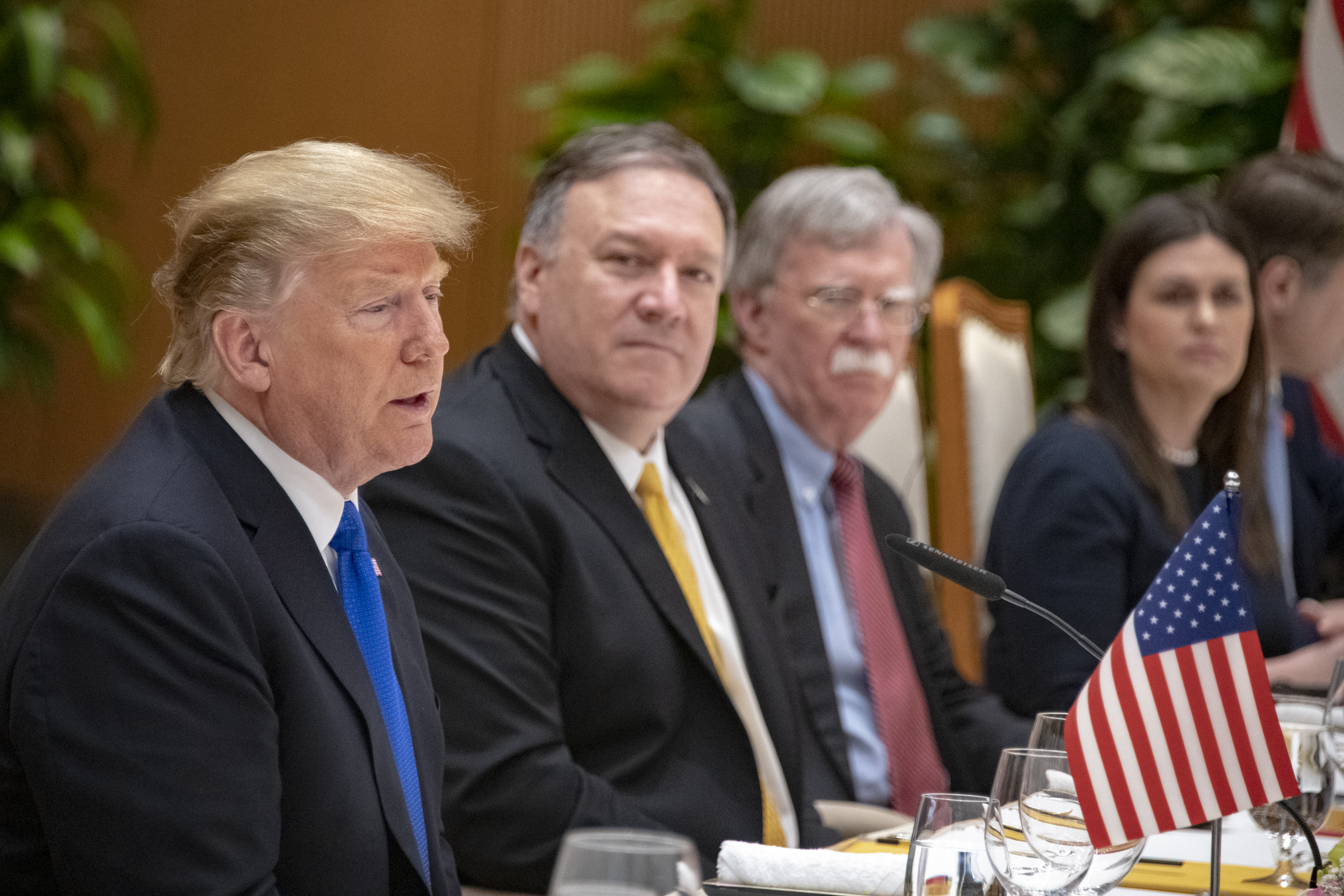 U.S. Secretary of State Michael R. Pompeo joins President Donald J. Trump for a working lunch with Vietnamese Prime Minister Nguyễn Xuân Phúc in Hanoi, Vietnam, on February 27, 2019. [State Department photo by Ron Przysucha/ Public Domain]